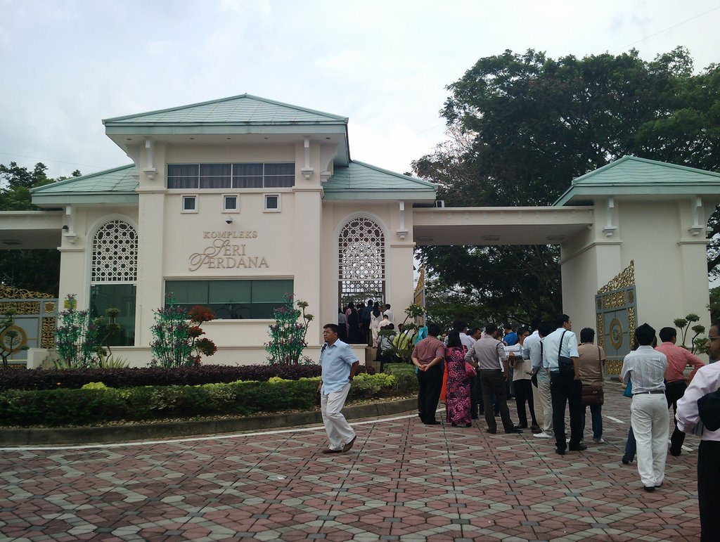 The Ser Perdana Complex. Putrajaya, Malaysia.